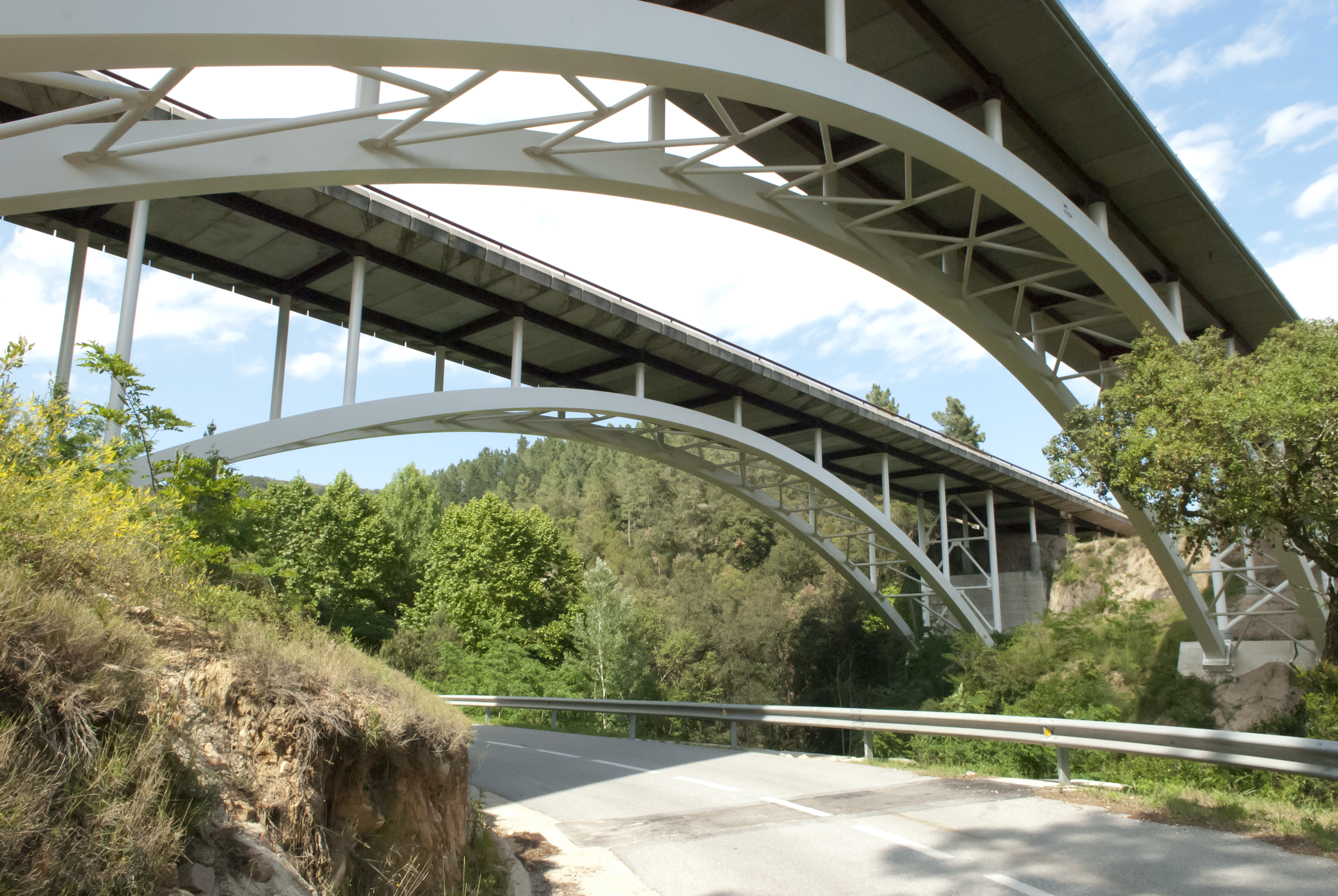 Image of Viaducte de les Foses (Catalonia).